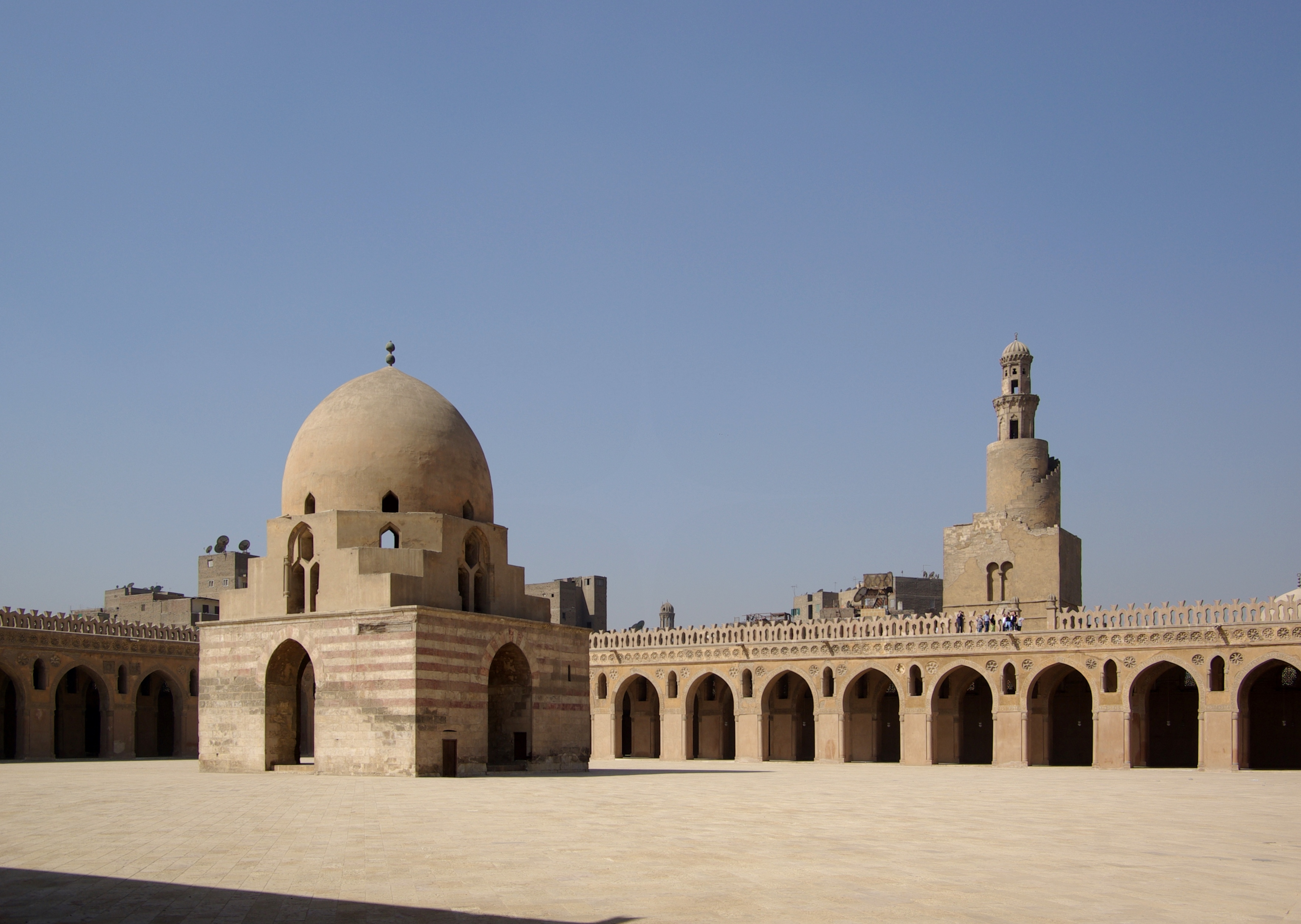 Cairo, Ibn Tulun Mosque